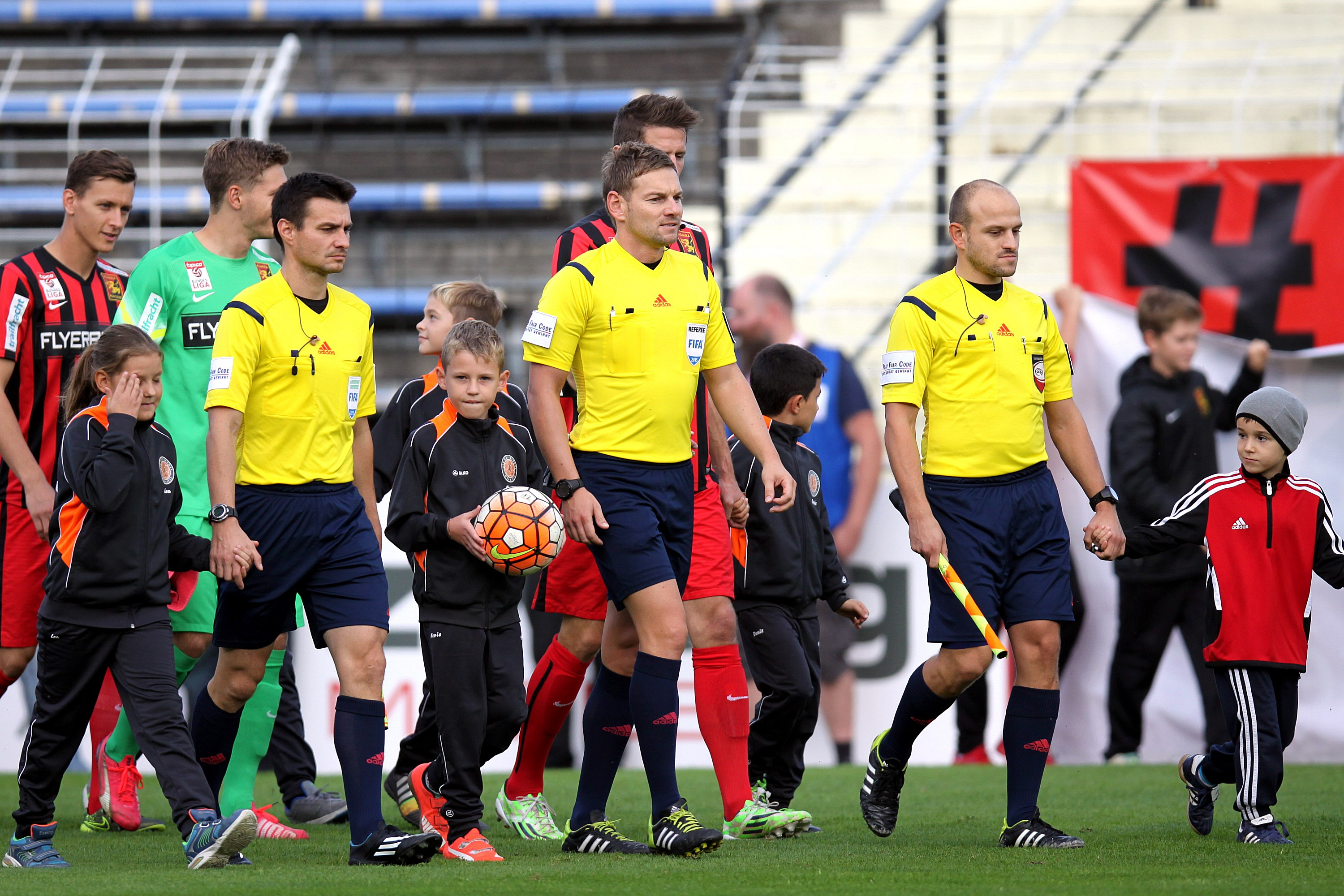 Match of the Austrian Football Bundesliga – FC Admira Wacker Mödling (red shirts) vs. SK Sturm Graz (white shirts) 0-1 (0-0) on 2015-09-27 in Bundesstadion Sudstadt – The photo shows assistent-referee Roland Brandner (left), referee Manuel Schüttengruber und assistent-referee Clemens Schüttengruber (right)